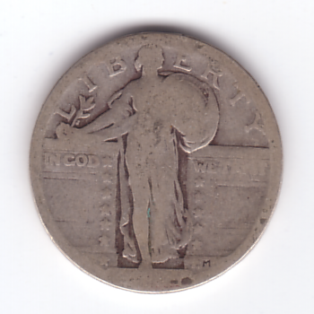 An obverse scan of a U.S. Standing Liberty Quarter with its date worn off, to illustrate this common problem with pre-1925 strikes.